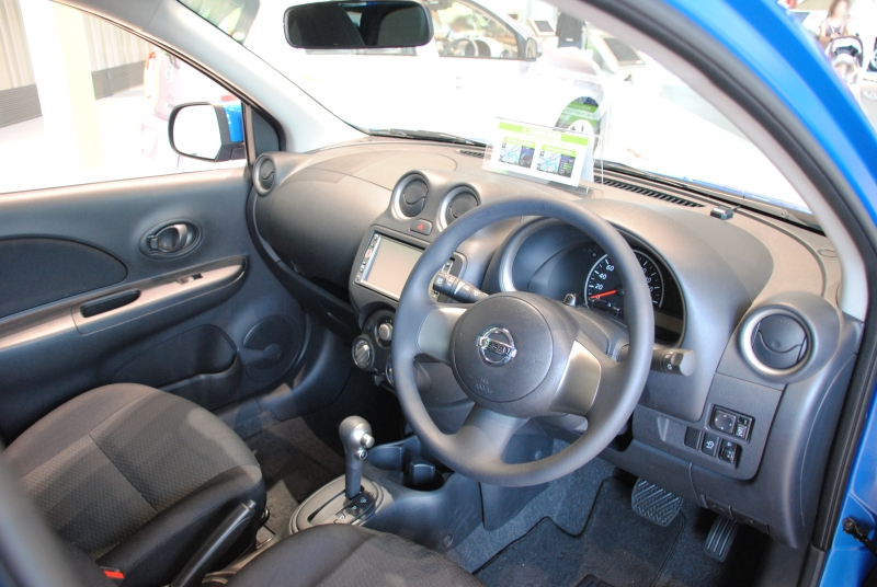 Nissan March 12X interior.